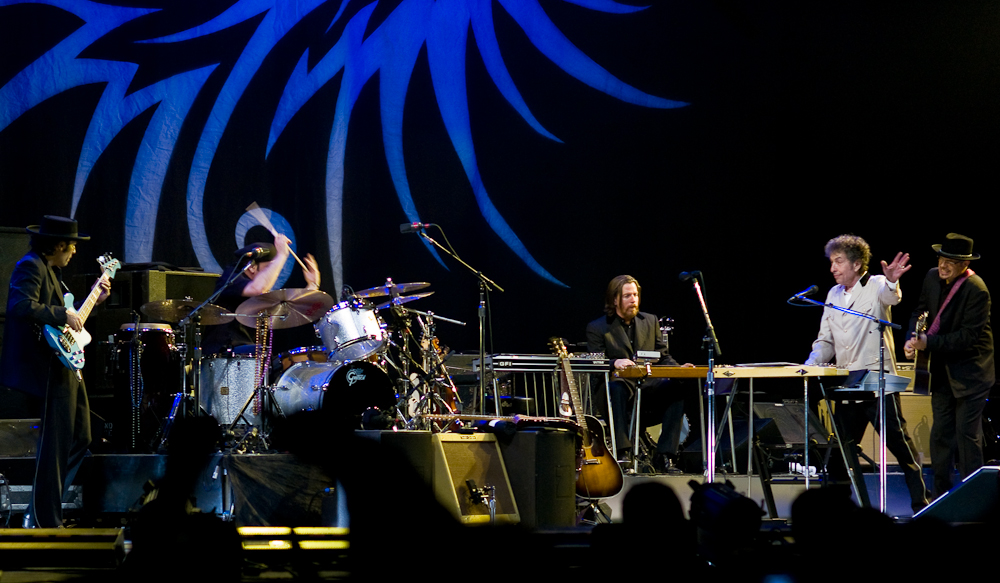 Bob Dylan at Oslo Spectrum on March 30th 2007